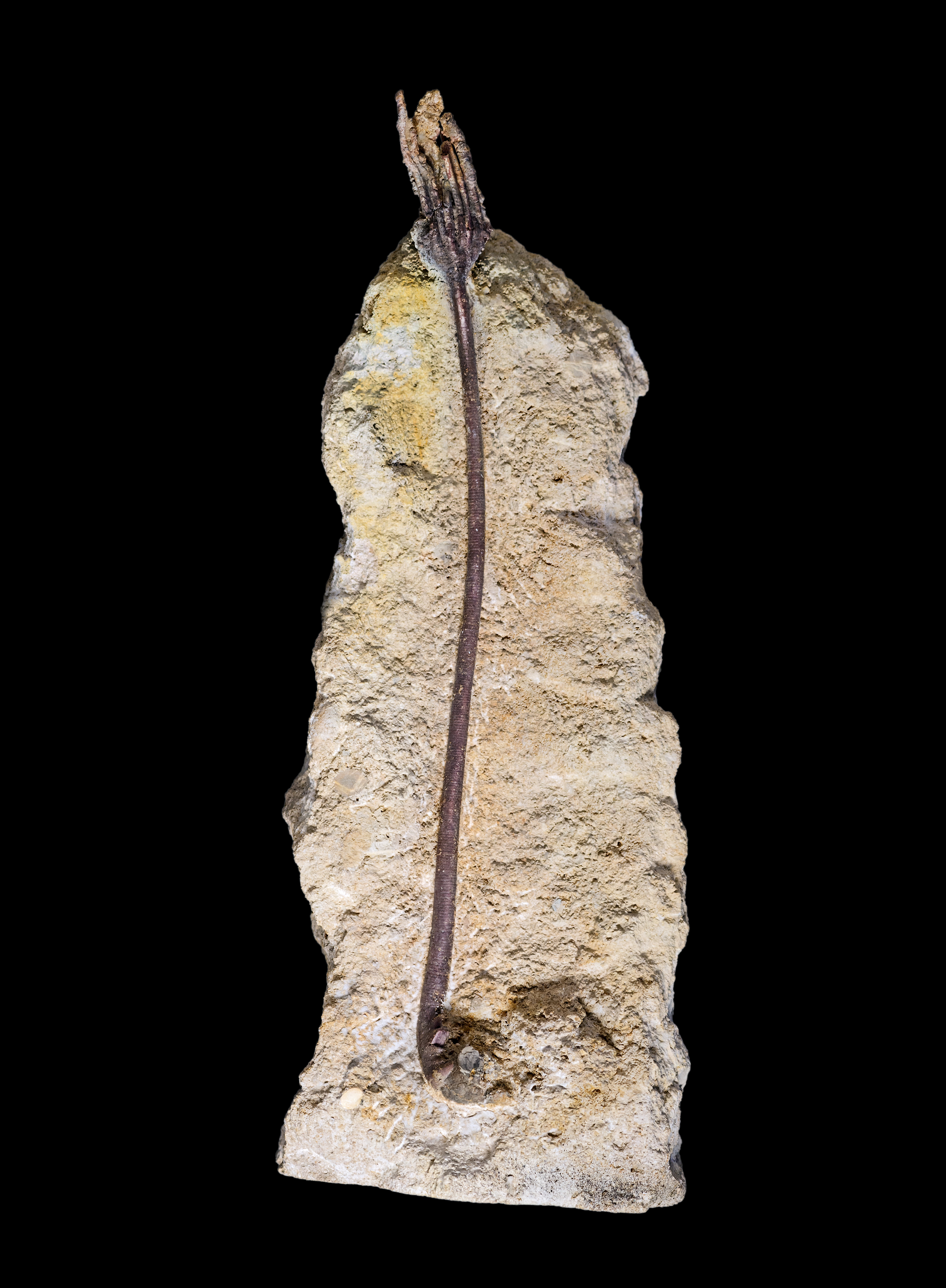 Liliocrinus polydactylus Stage : Oxfordian 161.2 ± 4 Ma and 155.7 ± 4 Ma (million years ago). Size : 18.4x13x47.6 cm; 6,8Kg